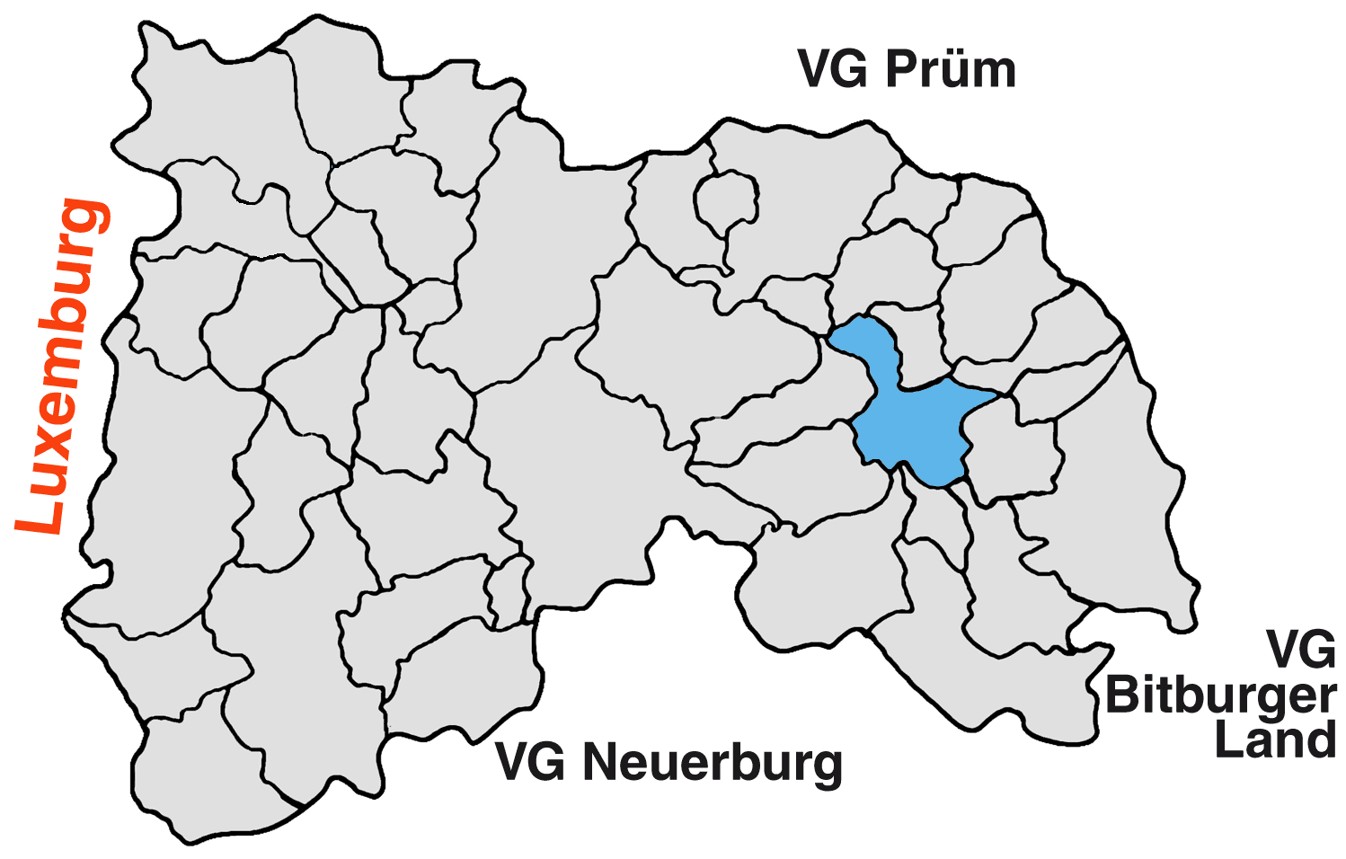 Map of the collective municipality (Verbandsgemeinde) of Arzfeld, Rhineland-Palatinate, with the municipality of Waxweiler emphasized